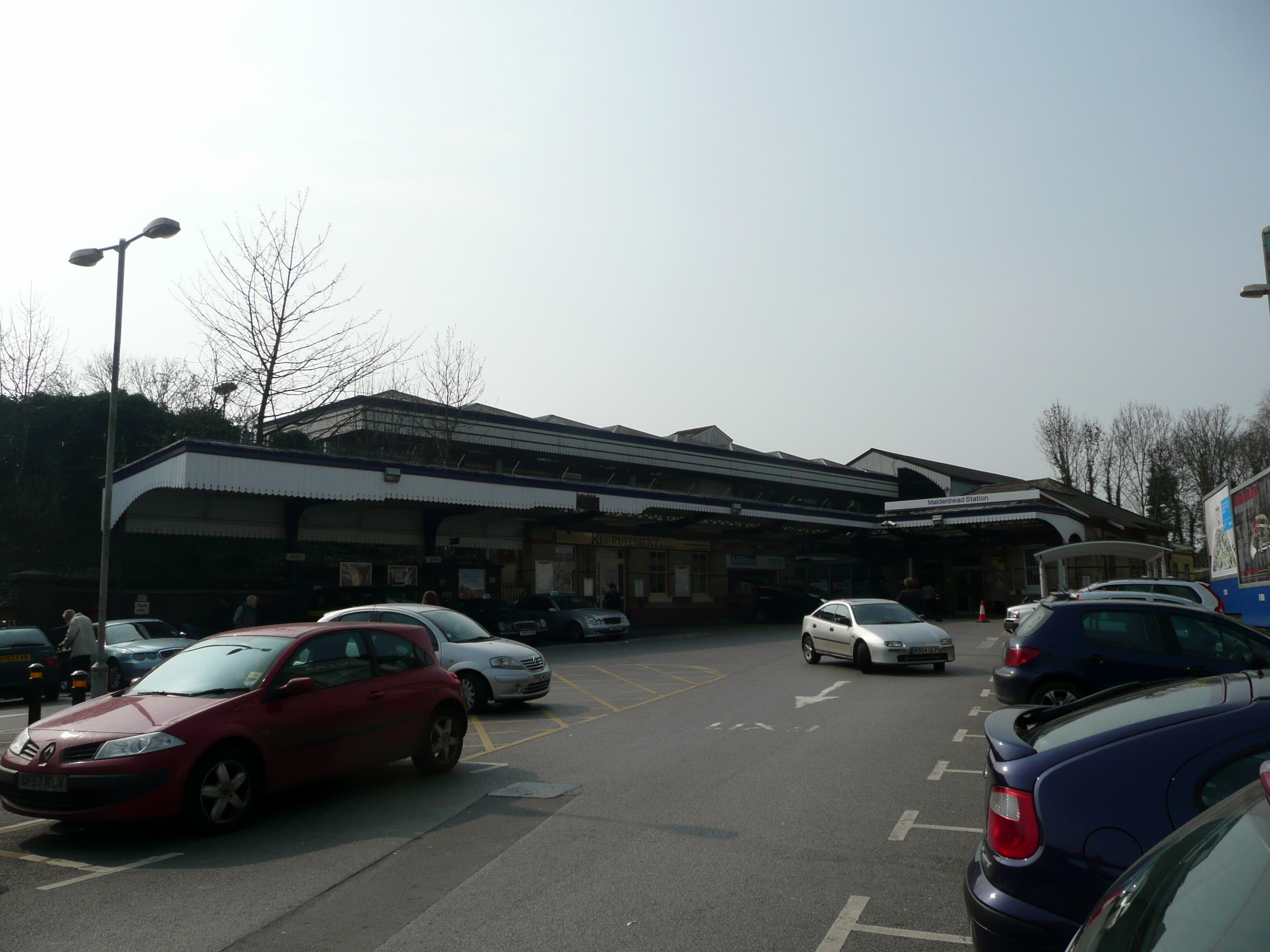 Opened in 1871 and originally known as Maidenhead Junction station, expanded in 1891.